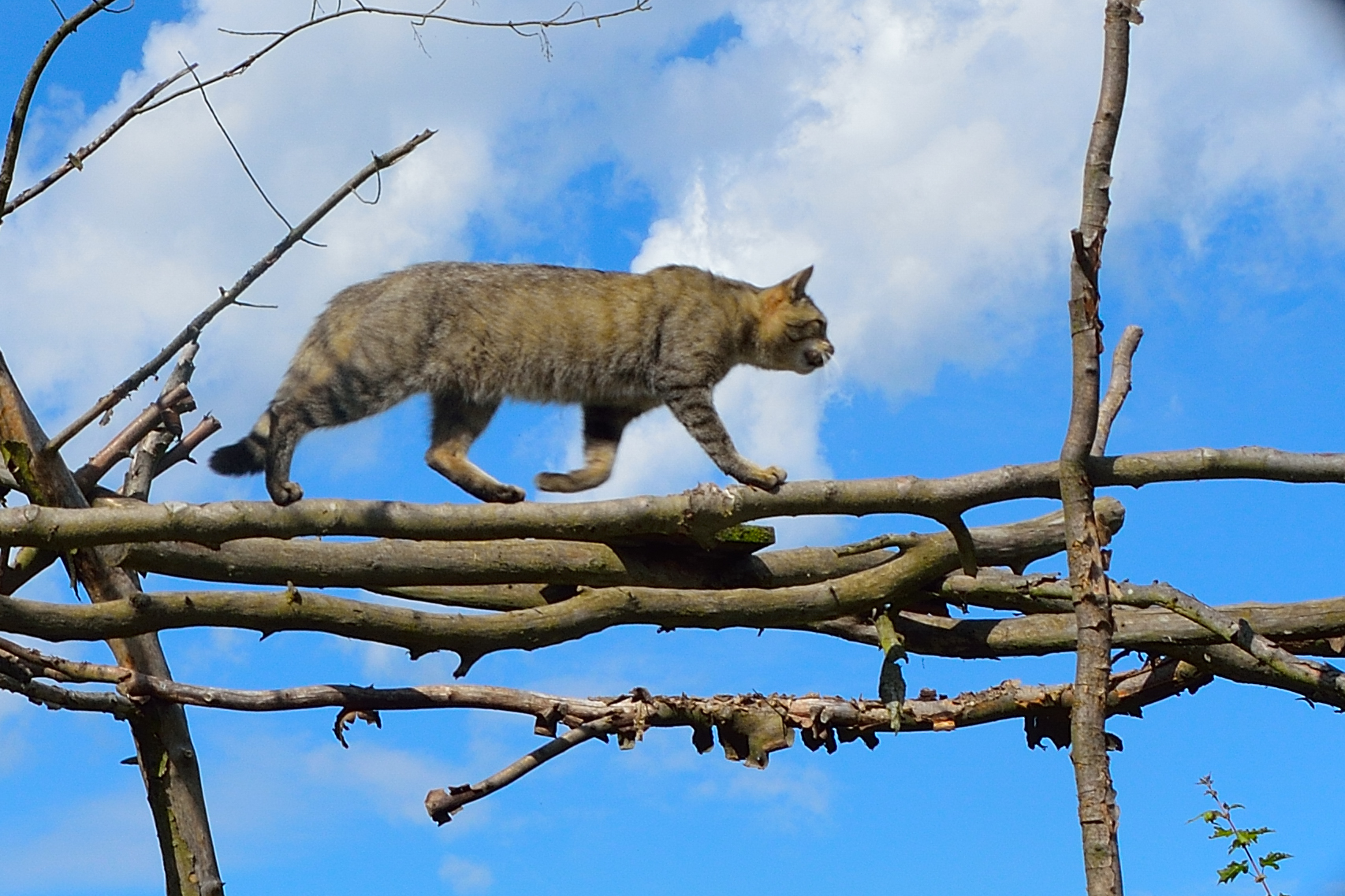 European wildcat (Felis silvestris silvestris), seen 2014 in Hainich National Park, Hütscherröda.